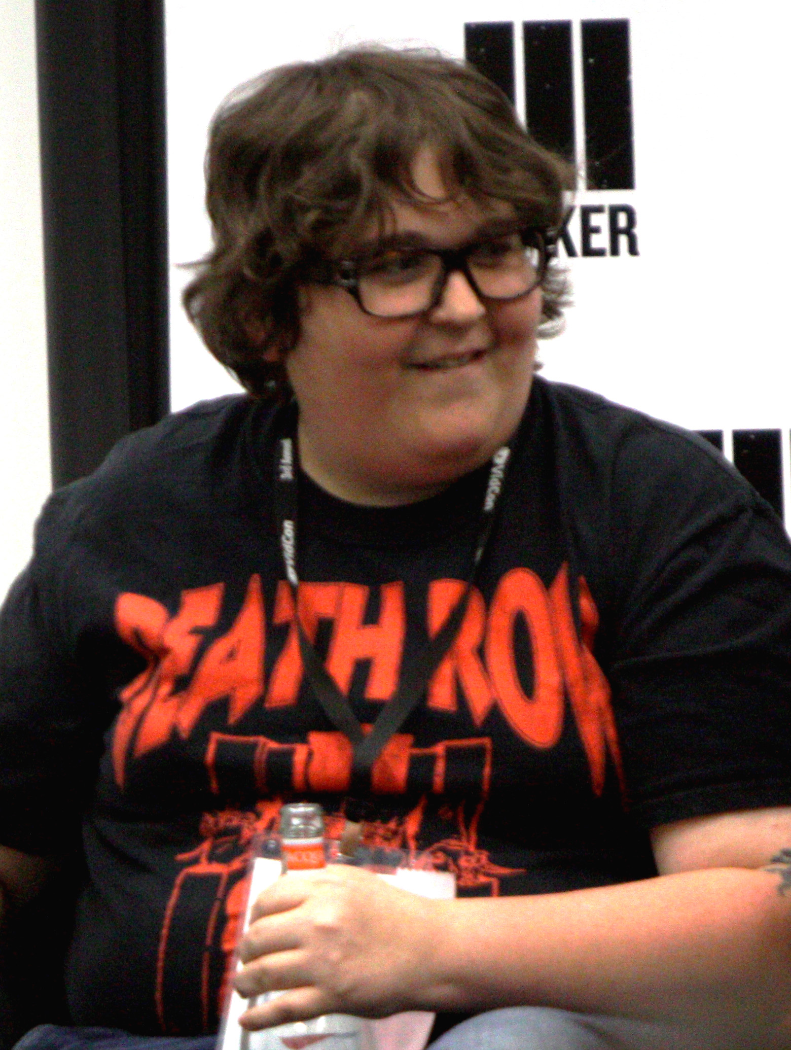 Andy Milonakis at the 2012 VidCon in Anaheim, California.